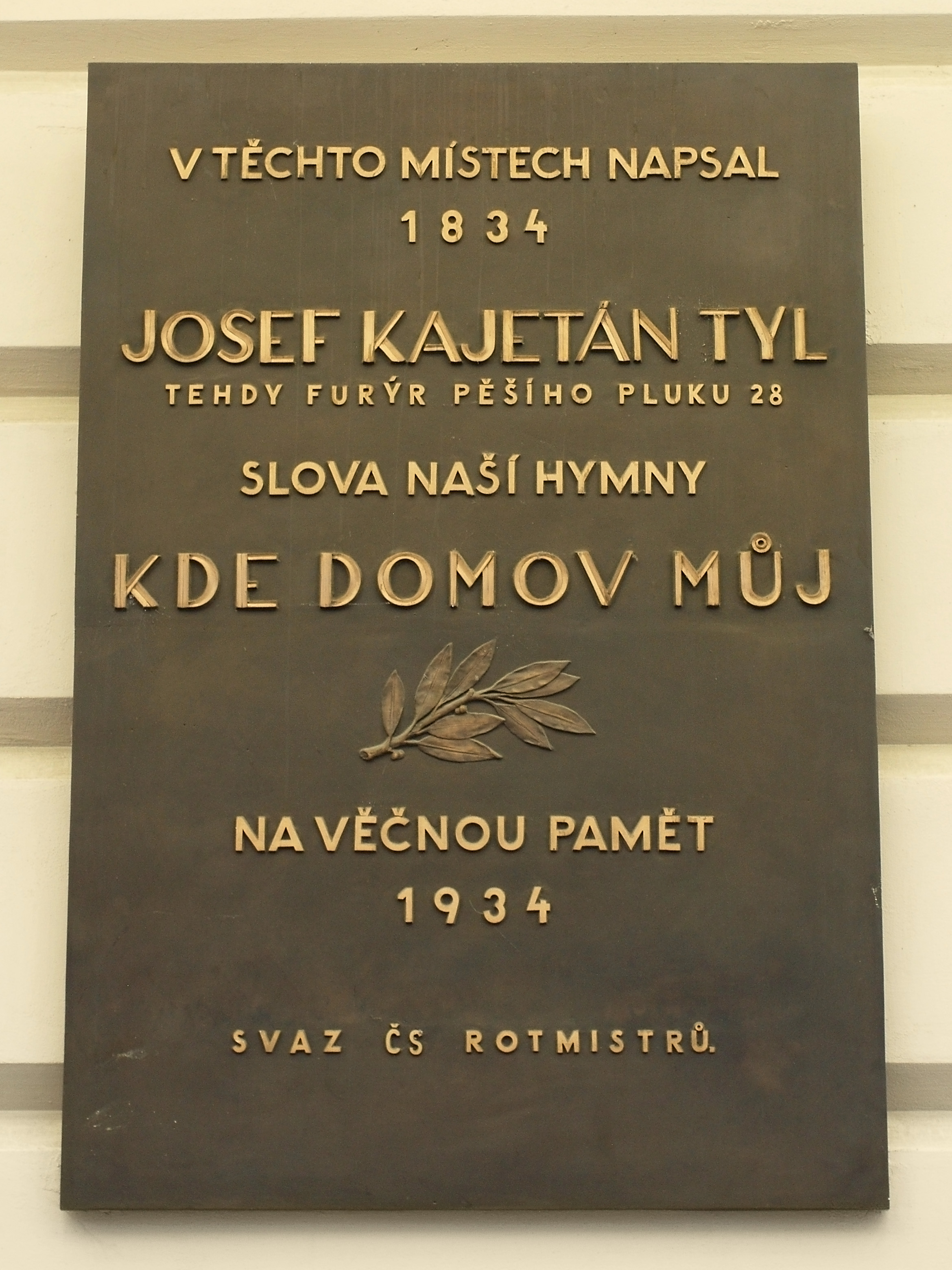 Plaque of Czech playwriter Josef Kajetán Tyl in the place where he wrote lyrics for the Czech national anthem (1834, inauguration of the plaque in 1934)